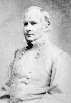 Portrait of General Sterling Price (1809-1867)